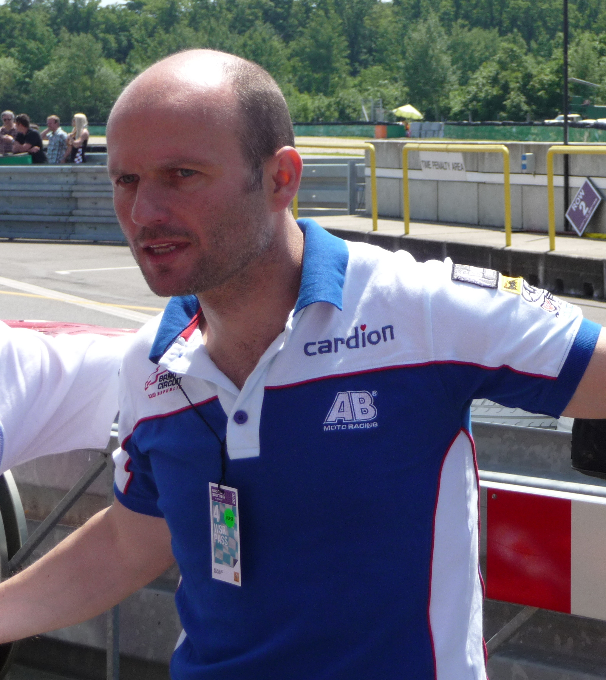 Dalibor Gondík in padock, 2010 Brno World Series by Renault